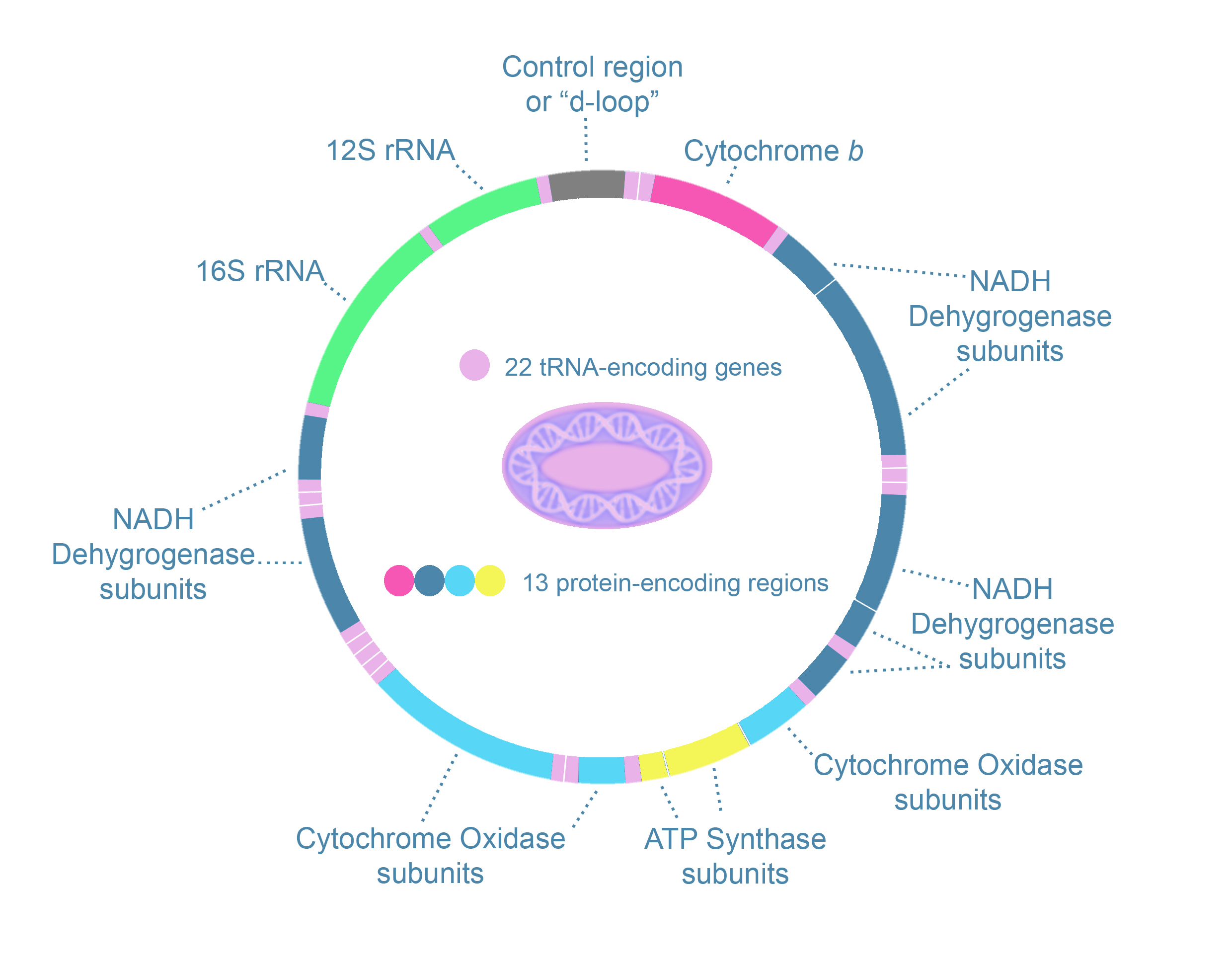 Mitochondrial DNA